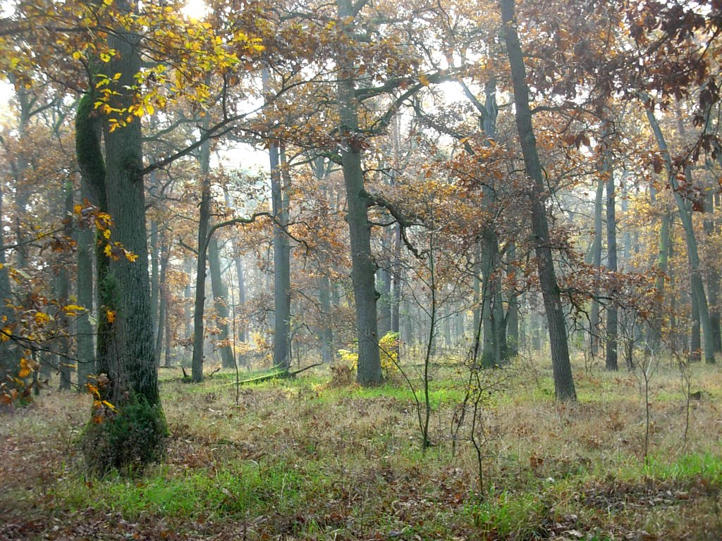 Nature reserve Dziki Ostrów